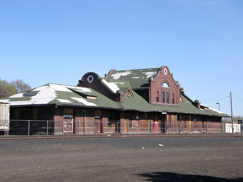 Brian Ambrose, OK for public distribution, electronic image of Northern Pacific Railway depot at Ellensburg, Washington, taken May 1, 2011, overview of depot